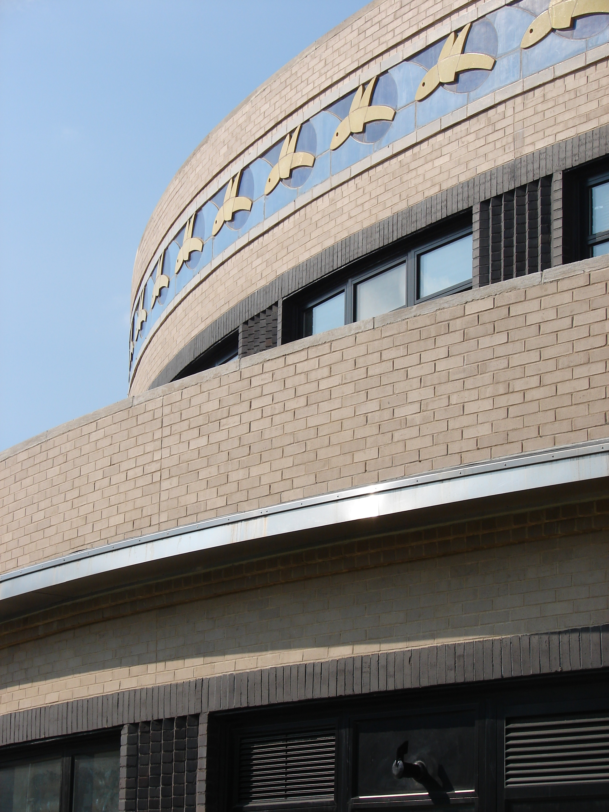 Facade, Marine Air Terminal, LaGuardia Airport, New York City.